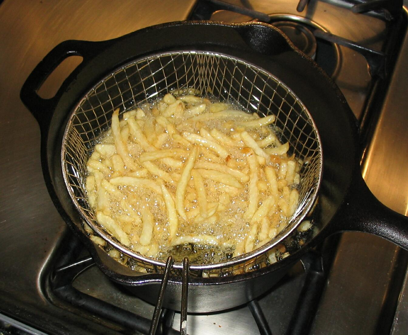 Fries or chips cooking in oil in a chip-pan. Photograph available under GFDL license. I took this picture myself in 2000, with an OM-2 Olympus camera. The picture was digitally edited. You do not need my permission to reuse it, but you may not claim that you took the photo yourself.